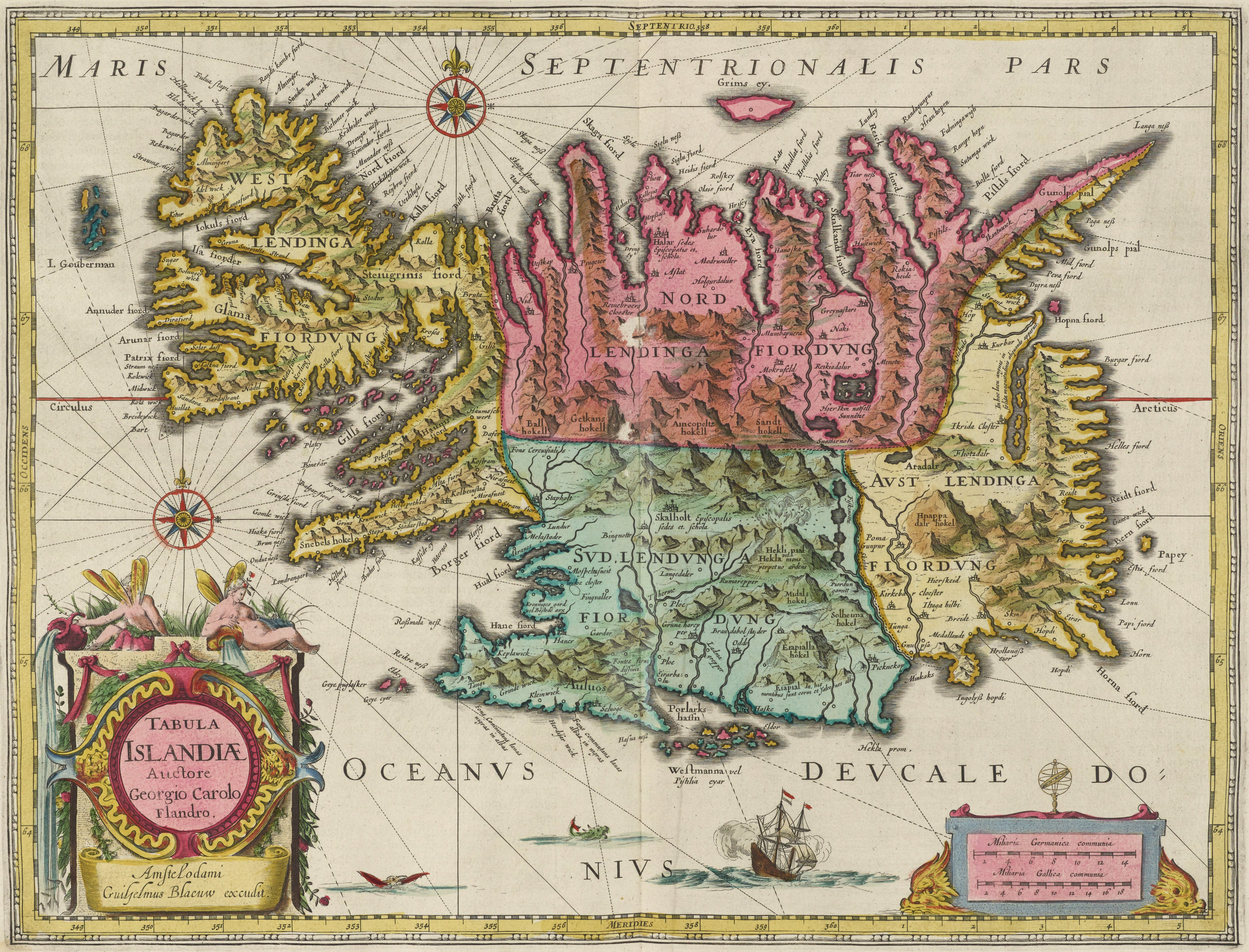 early map of Iceland showing the four original landsfjórðungar (on this map spelled in old Latin FIORVNG)